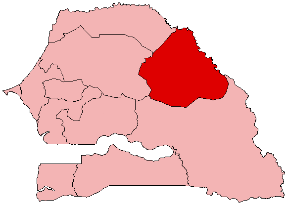 Map of Matam region, Senegal.